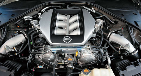 Motor